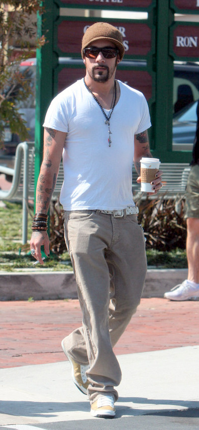 AJ McLean walking in Malibu in february, 2008.